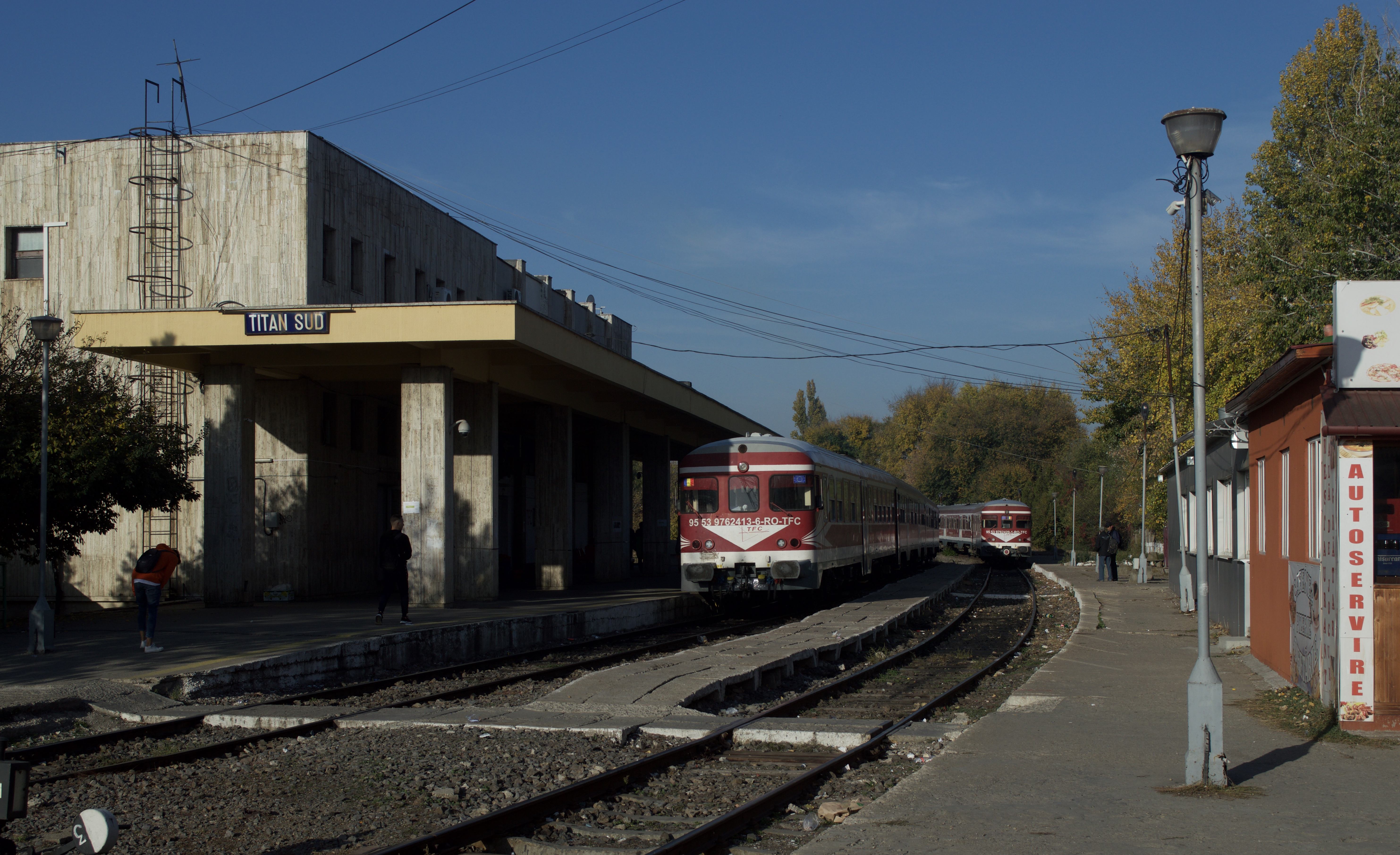 Titan Sud is located in the suburbs of București and as far as passenger services are concerned, the 60km branch from here to Oltenița is isolated from the rest of the network. However there is a connection with the largely freight only circular line around București. Formerly a CFR operated line operated by loco and coaches, open access operator Transferoviar Călători (TFC) now work the line with 3-coach class 76 DMUs which were formerly class 624s owned by DB in Germany. On the left is 762414 (with 762413 on the opposite end, not in view) on train R15175, 08:57 Titan Sud to Oltenița. The set to the right is 762420. Whilst international rail passes and rail staff FIP valid in Romania, won't cover this and all other open access lines, fares are extremely cheap. This 60 km, 90 minute journey cost RON7.50 = £1.40/€1.60 each way.